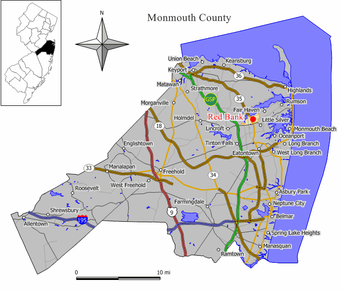 Source: Jim Irwin